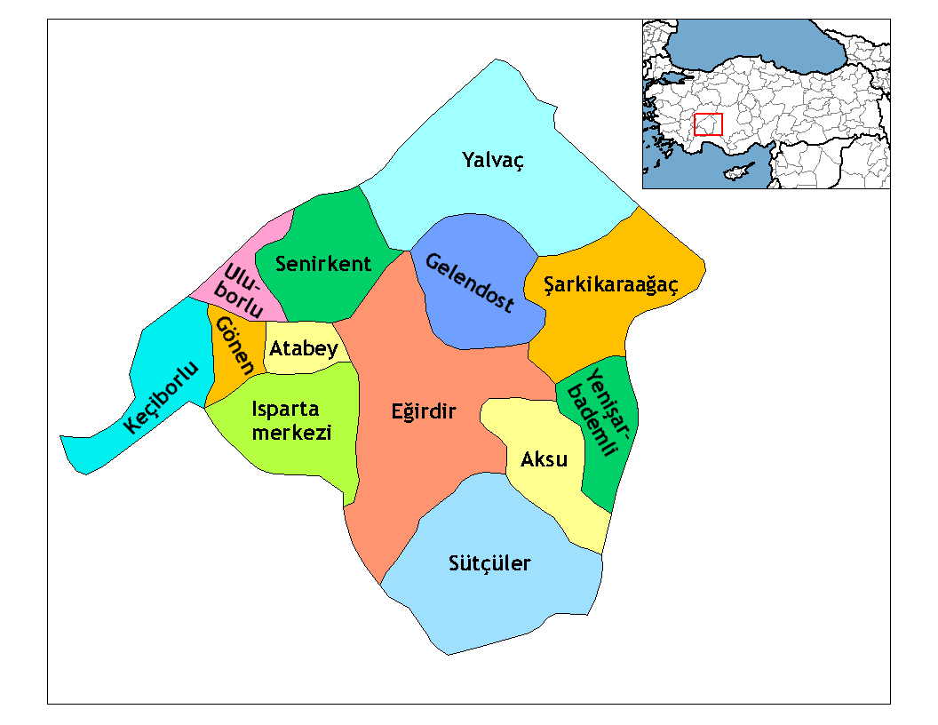 Map of the districts of Isparta province in Turkey. Created by Rarelibra 20:57, 1 December 2006 (UTC) for public domain use, using MapInfo Professional v8.5 and various mapping resources. Edited by One Homo Sapiens Corrected text where İ,Ş,ı,ğ,or ş occurs in name. Source: [statoids-com]. Increased font size and enhanced color differences among adjacent districts.